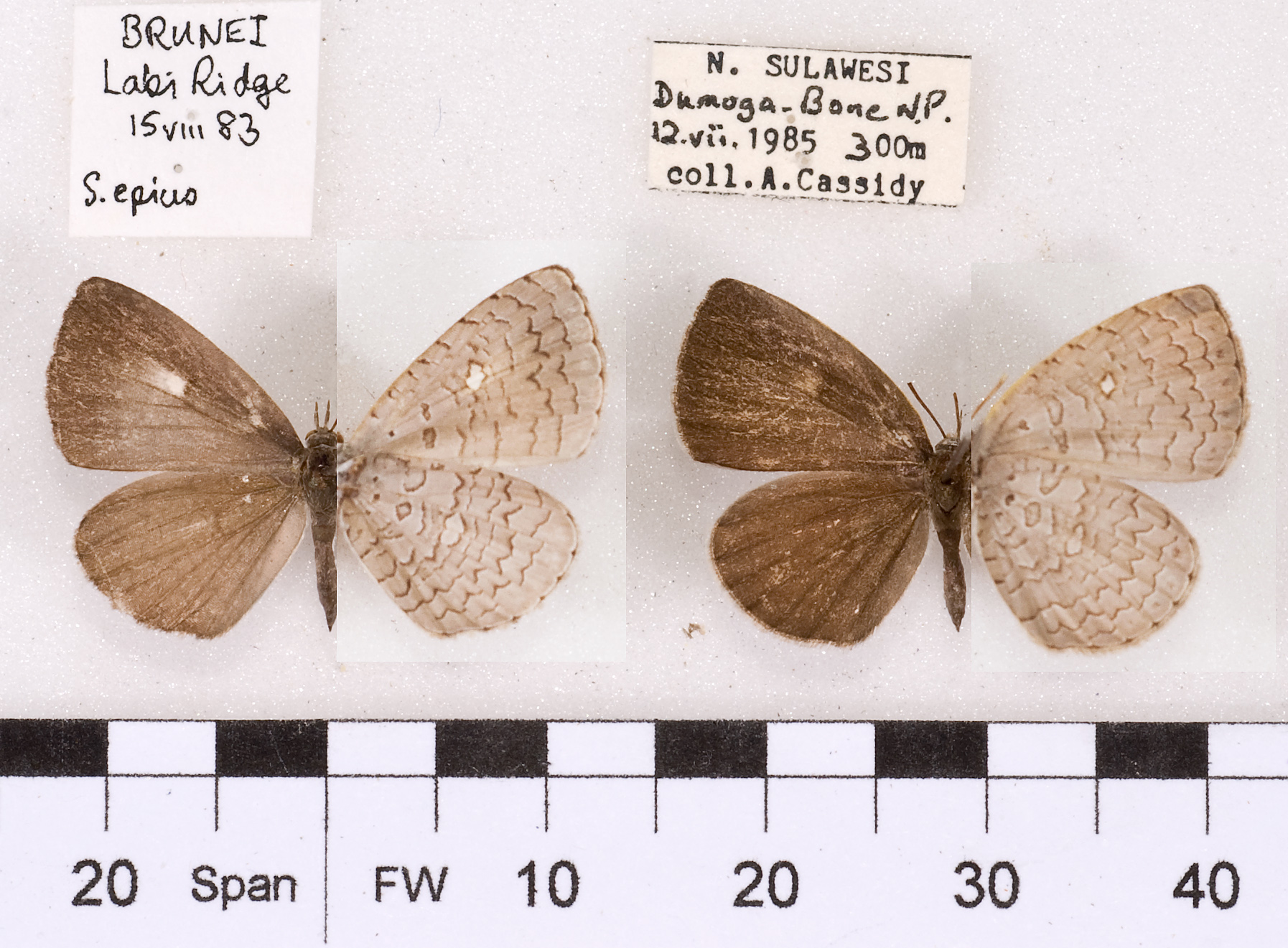 Spalgis epius, set specimens, Brunei, Sulawesi, Project Wallace material, Alan Cassidy photo.